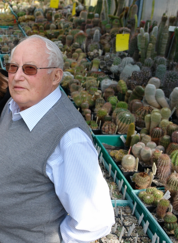 Werner J. Uebelmann in his greenhouse in Zufikon